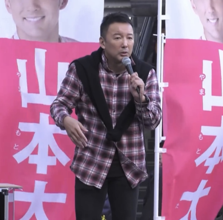 Taro Yamamoto, July 6th 2013, Shibuya Tokyo